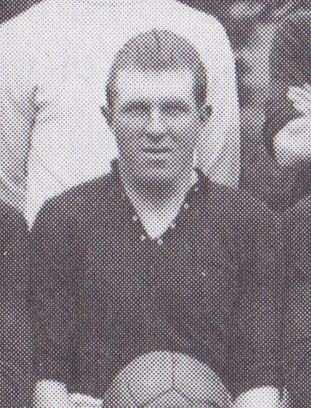 Bill Smith lining up before York City's match against Lincoln City reserves at Mille Crux, York on 9 September 1922